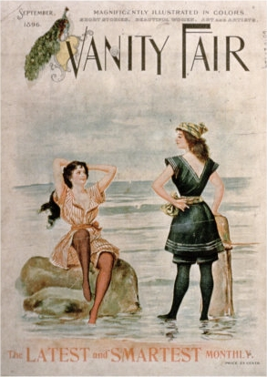 Front cover of Vanity Fair (British magazine).